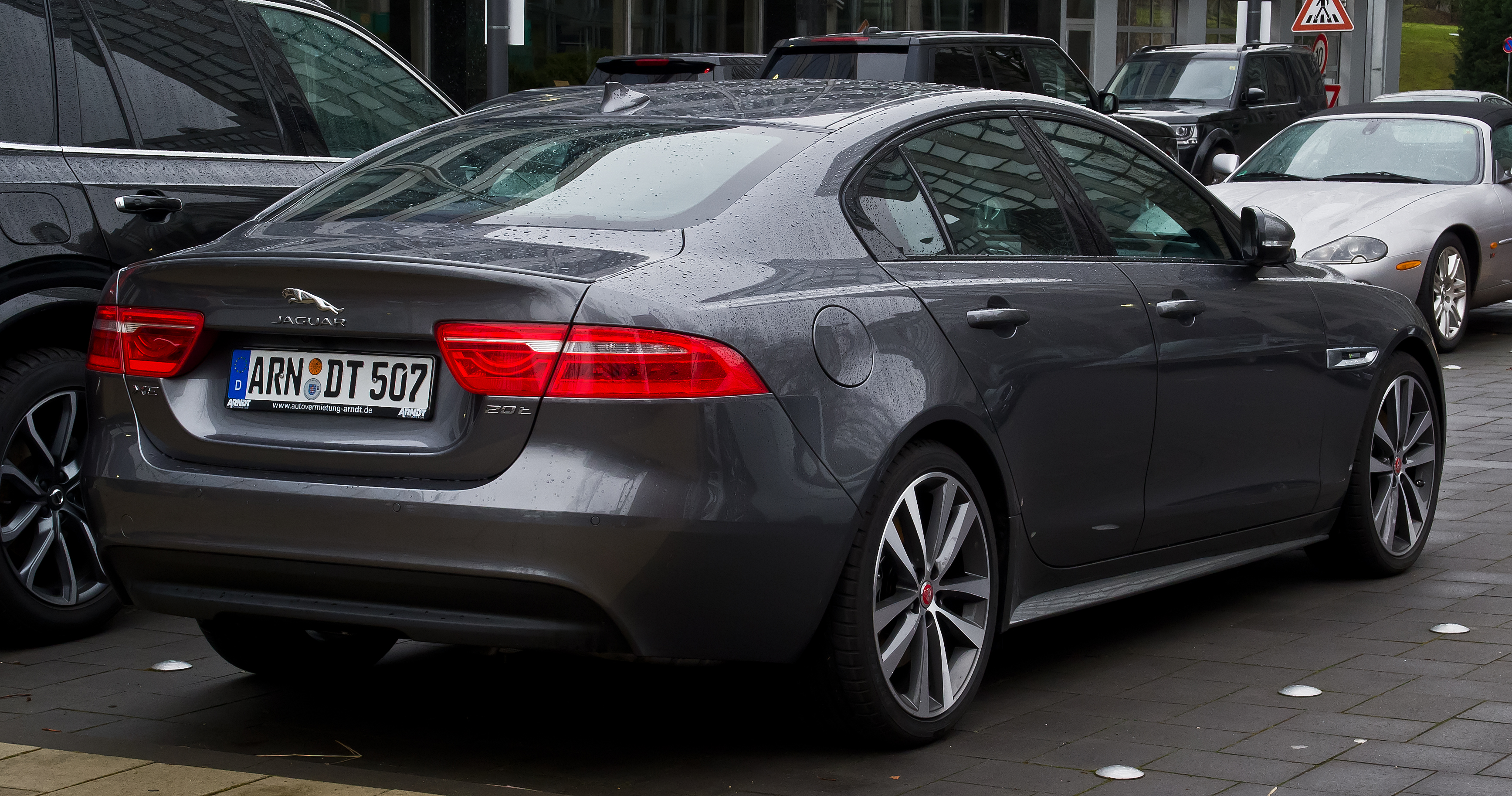 Jaguar XE 20t R-Sport